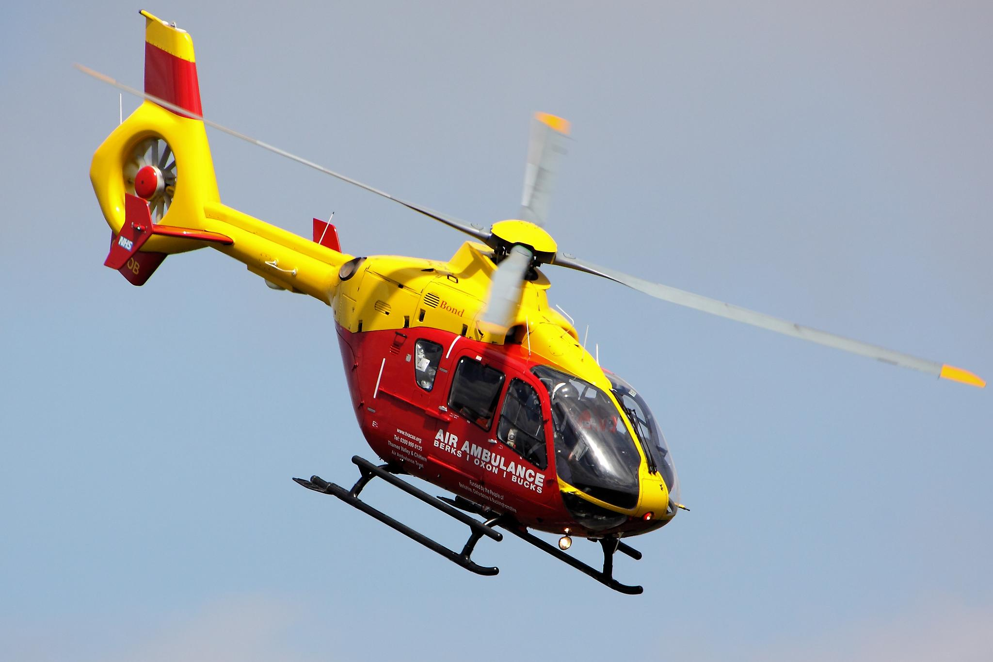 Amy and I went to the Abingdon Country and Fair and Air Display yesterday. Great weather and attractions made for a super day out all in aid of this Air Ambulance :-)